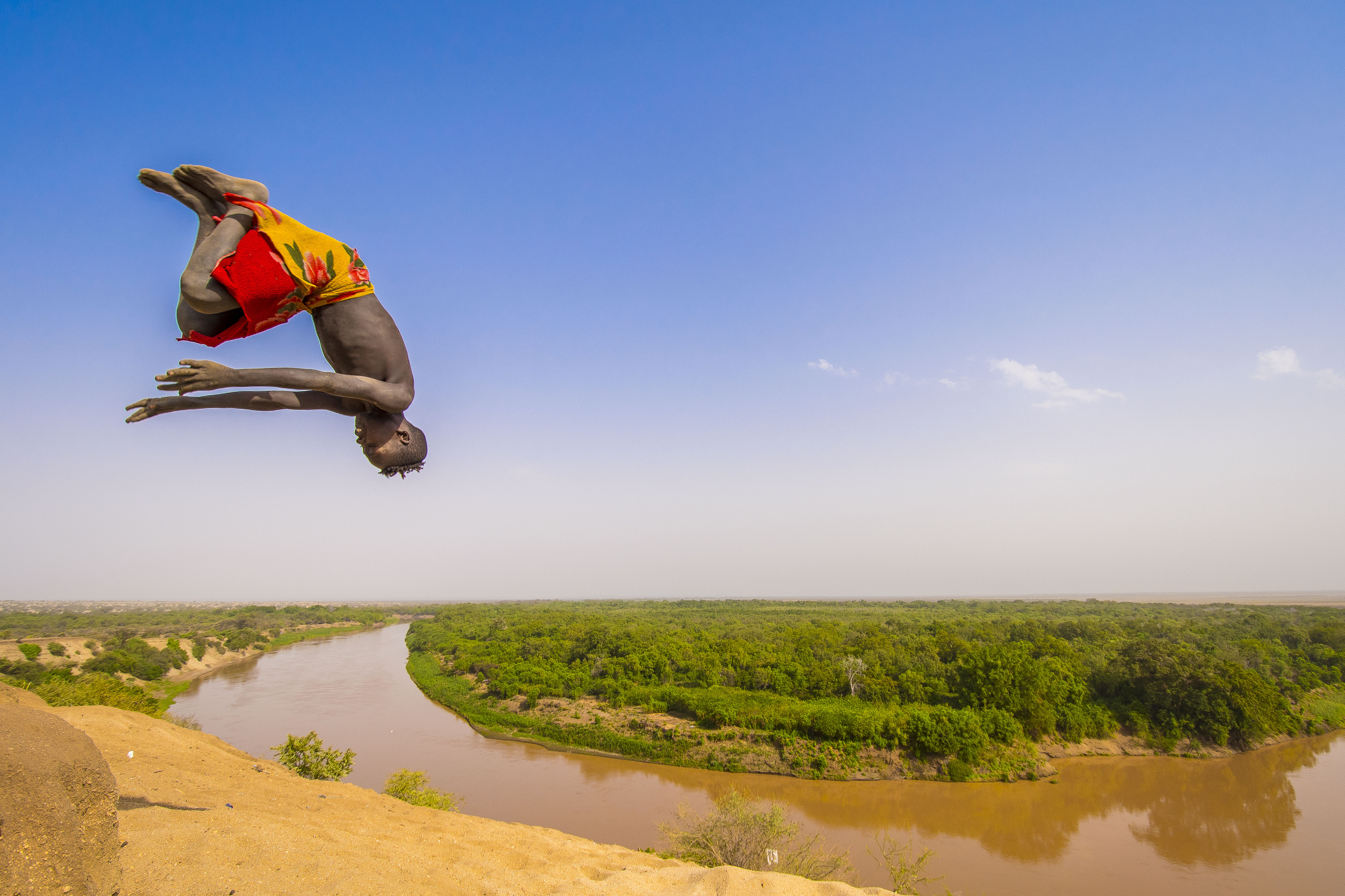 This is an image with the theme "Play" from: Ethiopia